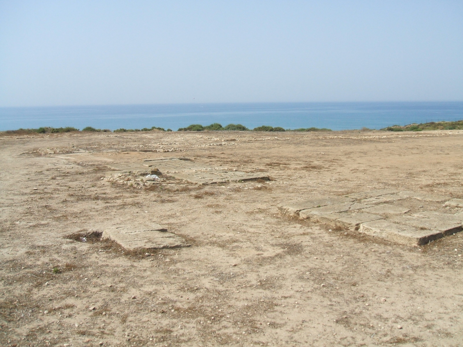 Camarina archaeological site : view of the agora plaza, to the west ; in front, foundations of the altars